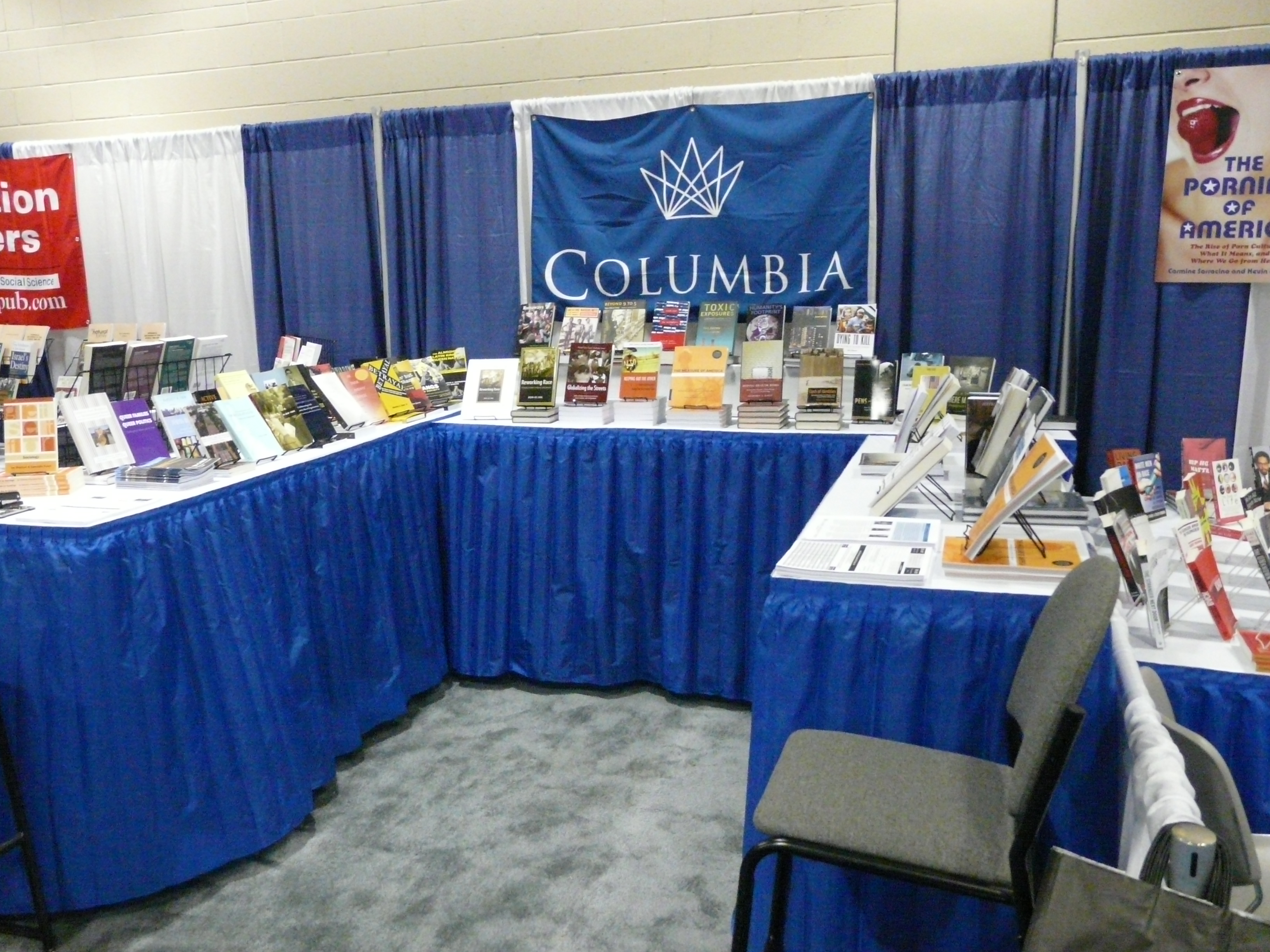 Boston. American Sociological Association conference.